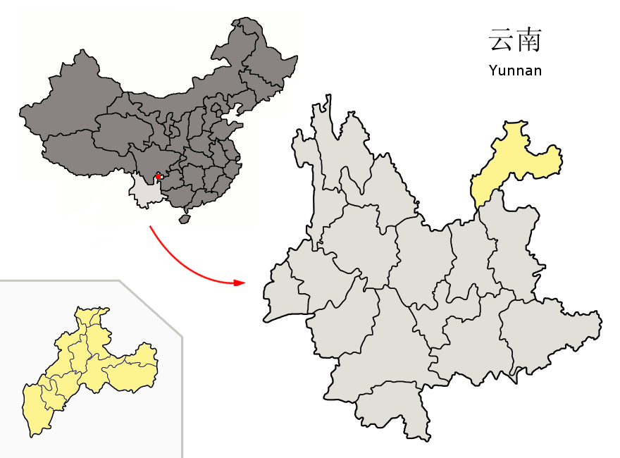 Location of Zhaotong Prefecture (yellow) within Yunnan province of China Map drawn in september 2007 using various sources, mainly : Yunnan province administrative regions GIS data: 1:1M, County level, 1990 Yunnan Counties map from Zhaotong Prefecture administrative map from .au